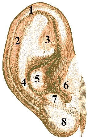 1 – Helix 2 – Scapha 3 – Fossa Triangularis 4 – Anti-Helix 5 – Concha 6 – Tragus 7 – Anti-Tragus 8 – Lobule